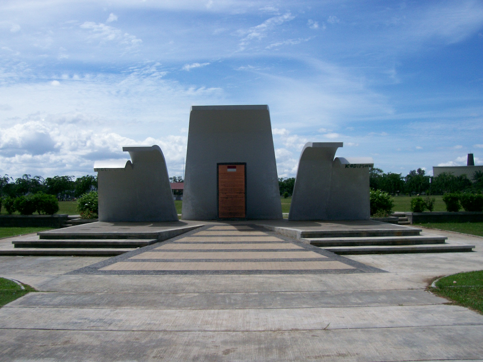 Aceh Tsunami Monument